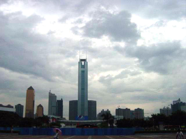 guangzhou citic plaza, photo's taken in 2004